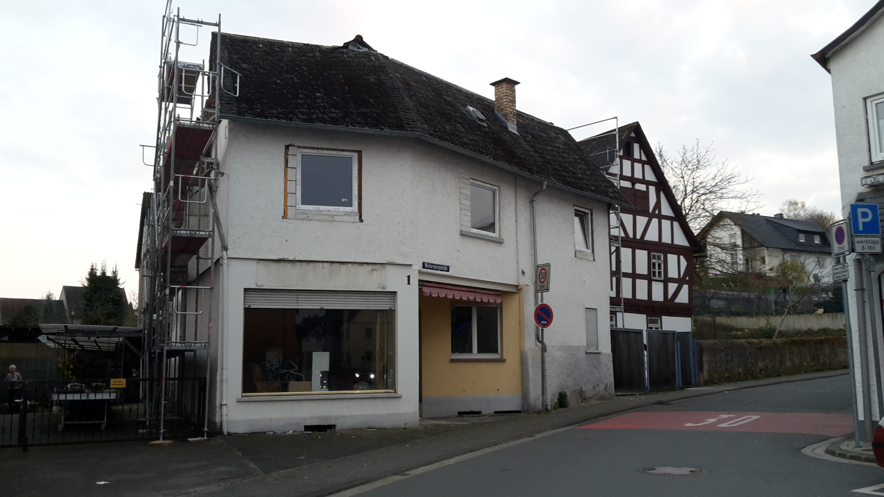 Burgsolms, Wintersburgstraße 3